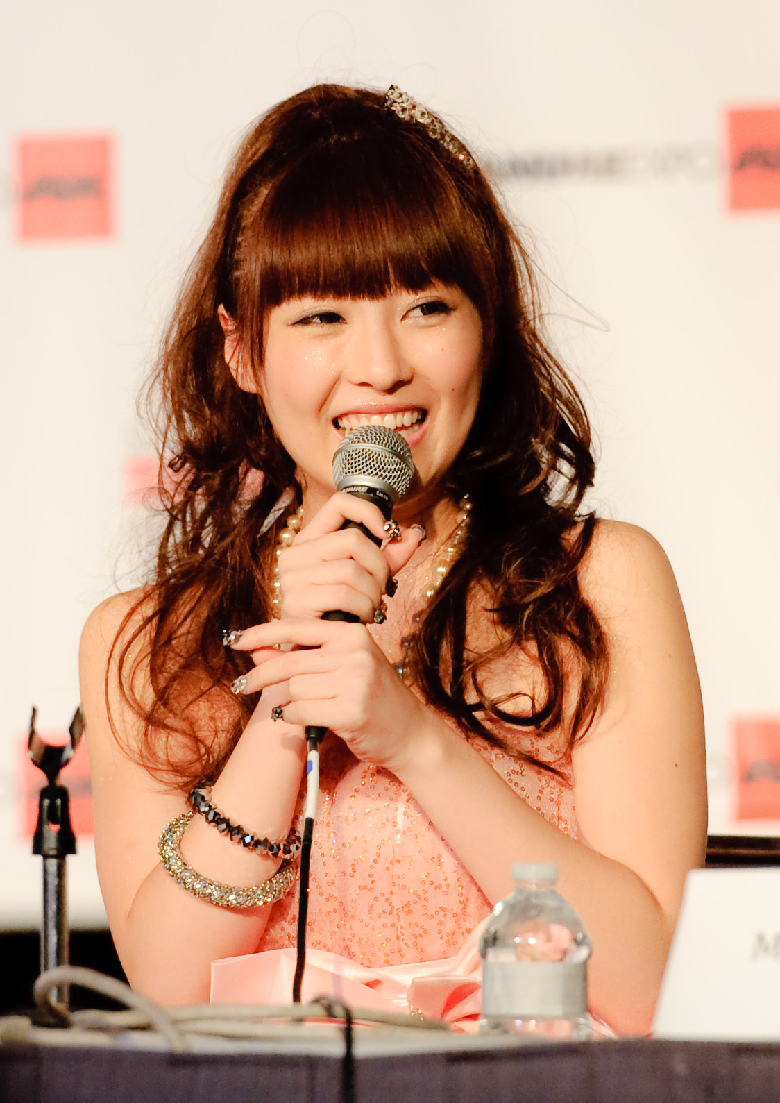 Japanese singer Maon Kurosaki at Anime Expo 2011 in Los Angeles, California